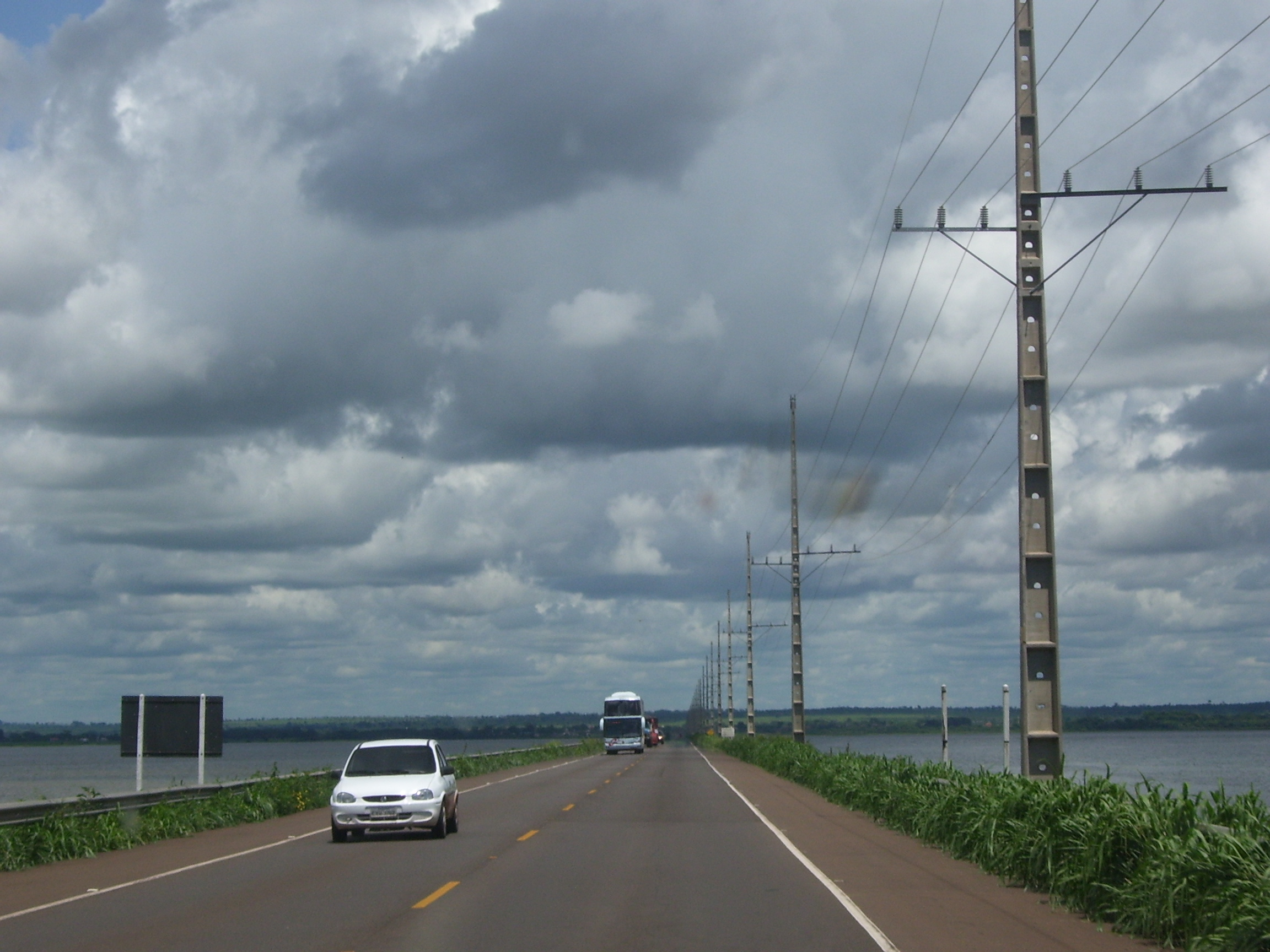 Embankment on the Paraná River, between the Brazilian states of Mato Grosso do Sul and São Paulo, constructed after the wadding of the lake of the hydroelectric dam "Engineer Sergio Motta".